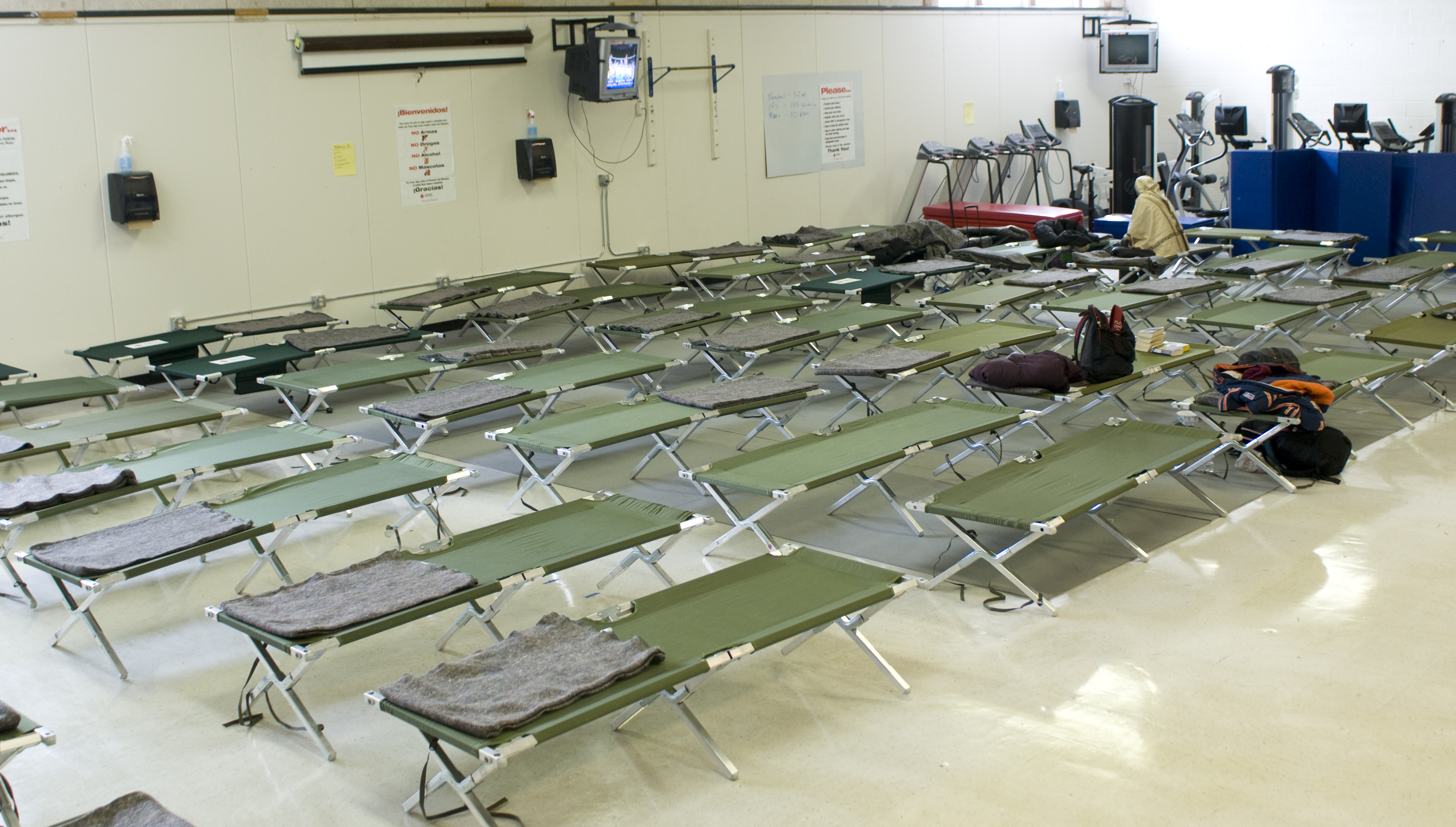 Fargo, ND, March 26, 2009 -- The Red Cross has set up shelters around the State of North Dakota in anticipation of evacuees that may have to leave their home in areas that are flooded. Photo by Patsy Lynch/FEMA